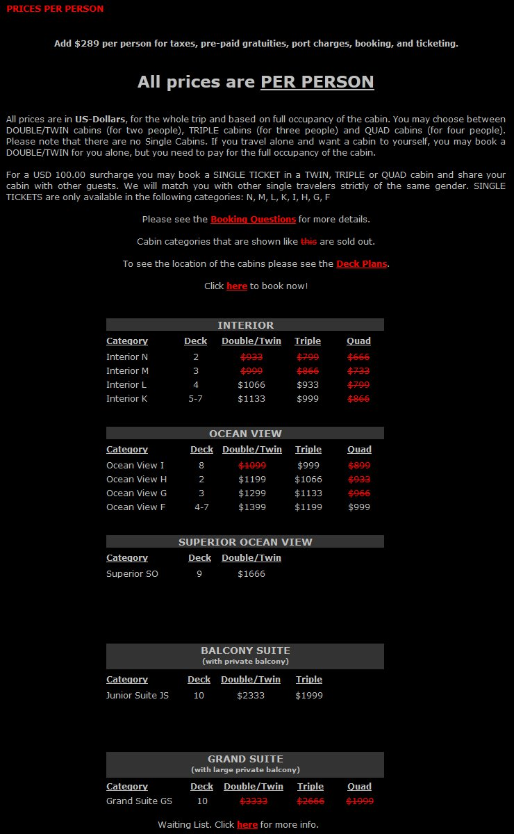 (cropped) Screenshot of Pricing of the 70000 Tons of Metal Festival 2012